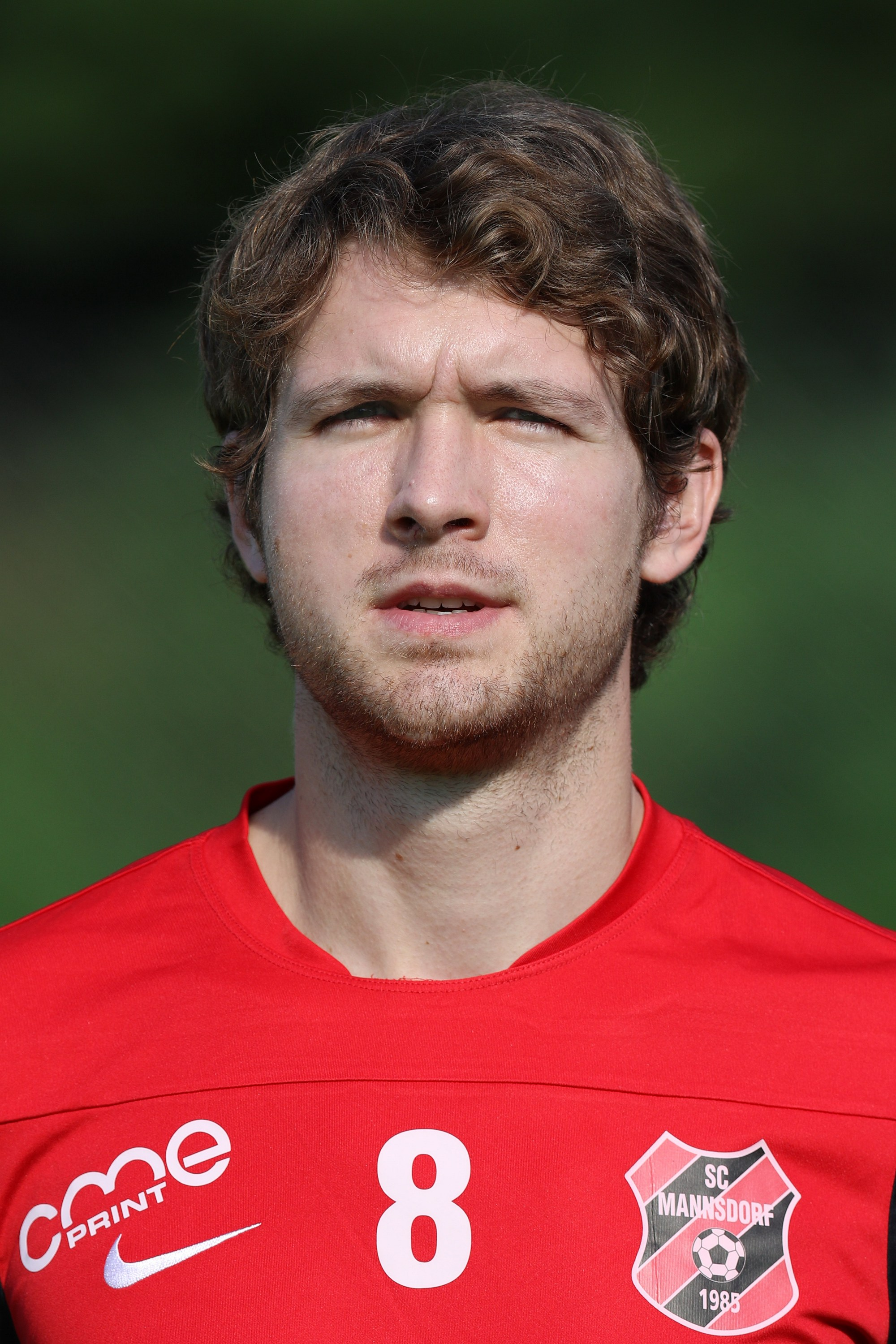 Friendly match SC Mannsdorf (red shirts) vs. SC Wiener Neustadt (blue shirts) 0-2 in Katzelsdorf on 2016-07-01. – The photo shows Paul Weissensteiner (SC Mannsdorf).